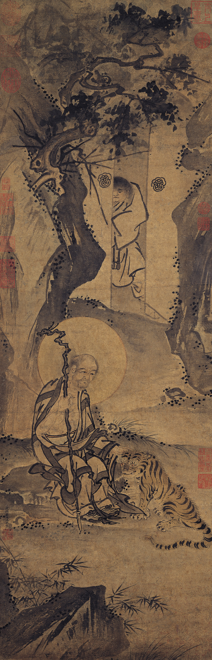 Luohan, hanging scroll, color on paper, 113.9 x 36.7 cm. Located at the National Palace Museum.